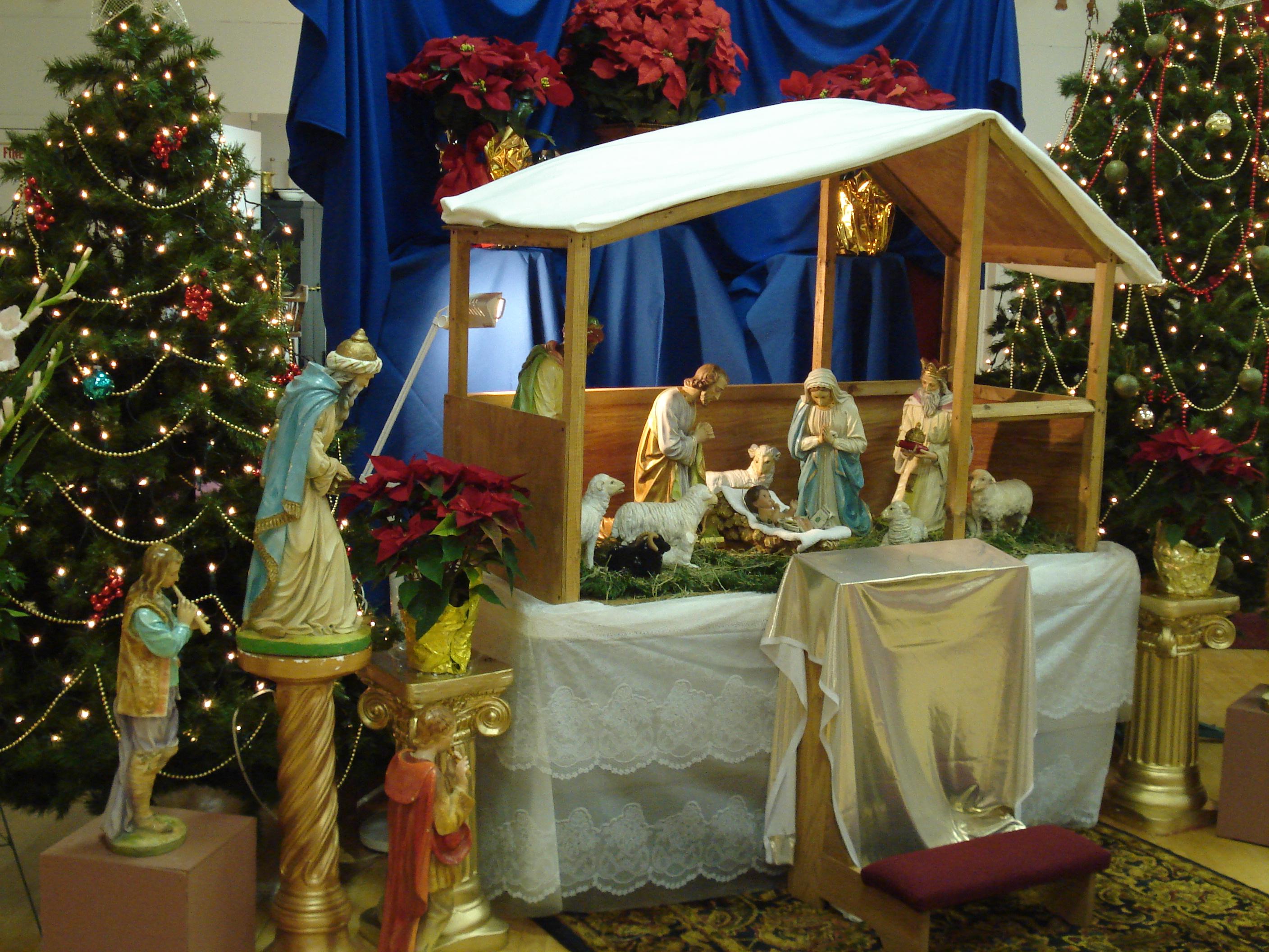 Nativity scene at Sacred Heart Catholic Church, in the historic Barelas neighborhood, Albuquerque, NM, Jan 2008.